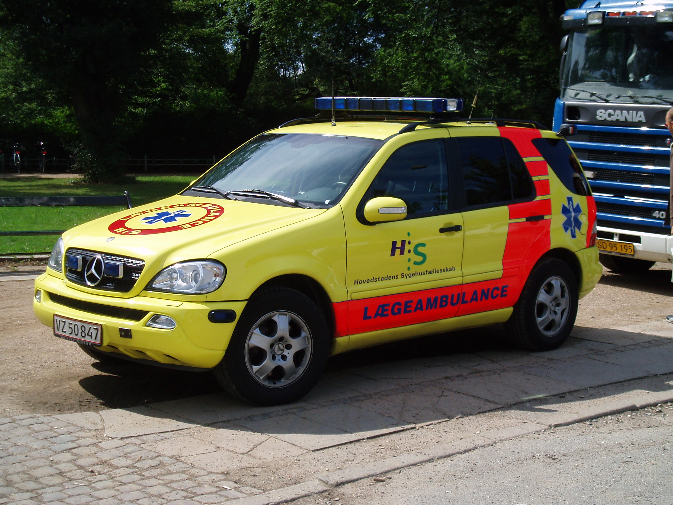 Mercedes-Benz M-class emergency doctor's vehicle, Copenhagen. Photographed when standing by at the Copenhagen Historic Grand Prix. The unit is operated by the Copenhagen Hospital Corporation and is manned with one doctor and a specially trained paramedic ("doctor's assistant) from Copenhagen Fire Brigade.